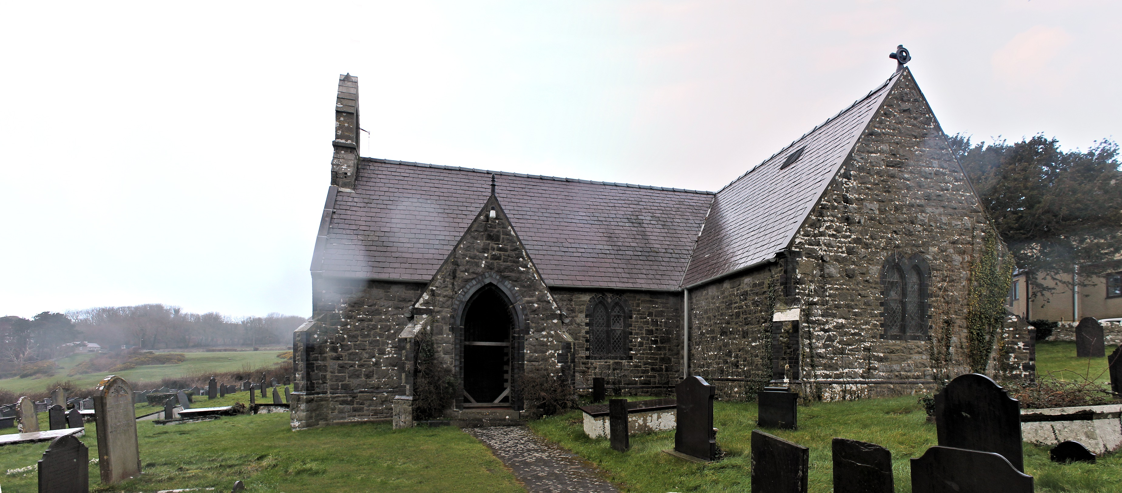 St Cawrdaf's Church, Llangoed, Ynys Môn (Anglesey), North Wales. Grade: II; Date Listed: 30 January 1968; Cadw Building ID: 5516.